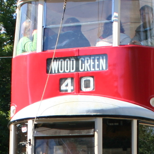 Rollsign windows: a wide one for the destination and only two, digital, square windows for the route number.